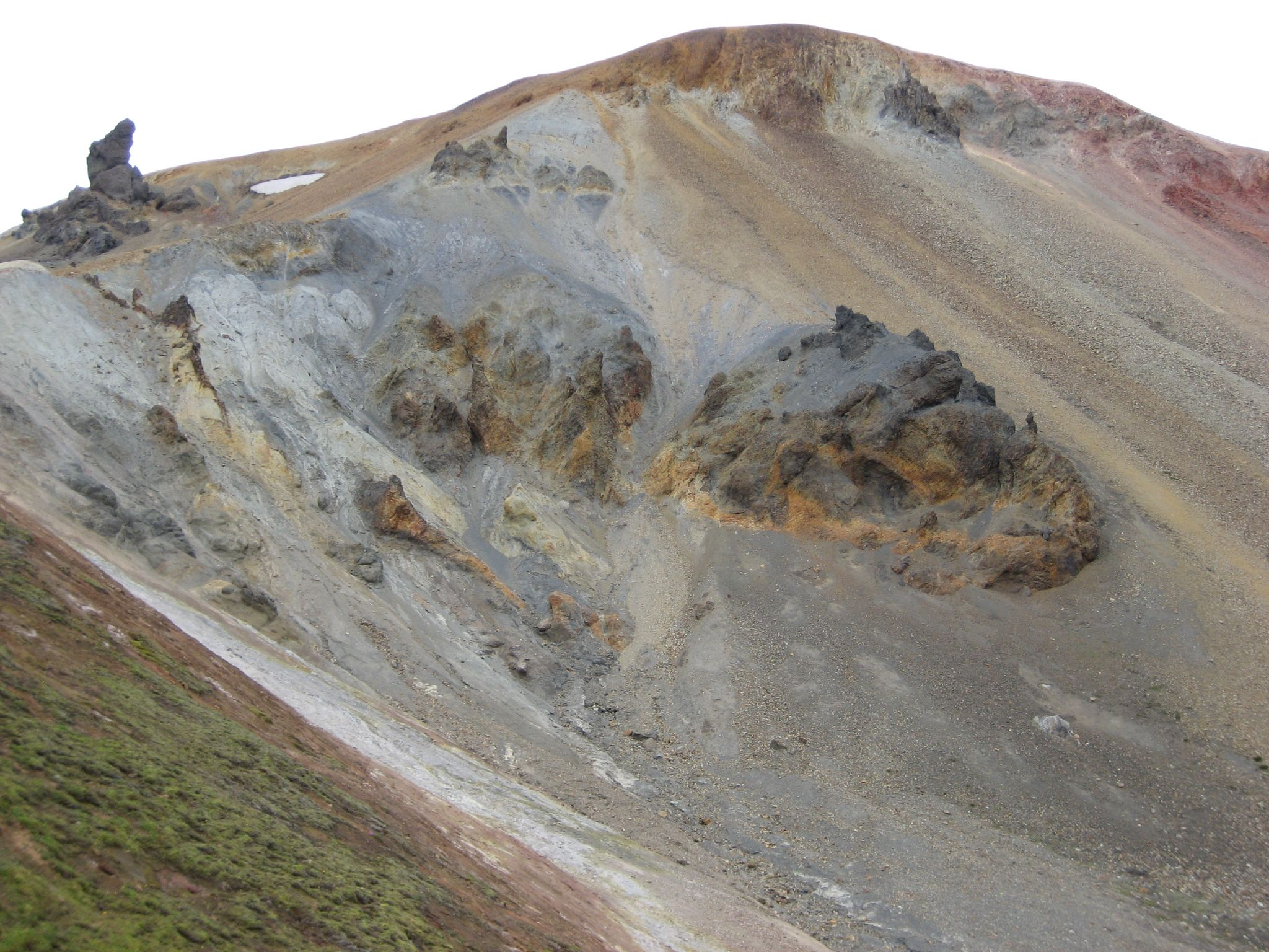 first steps in the famous colourful Rhyolite mountains